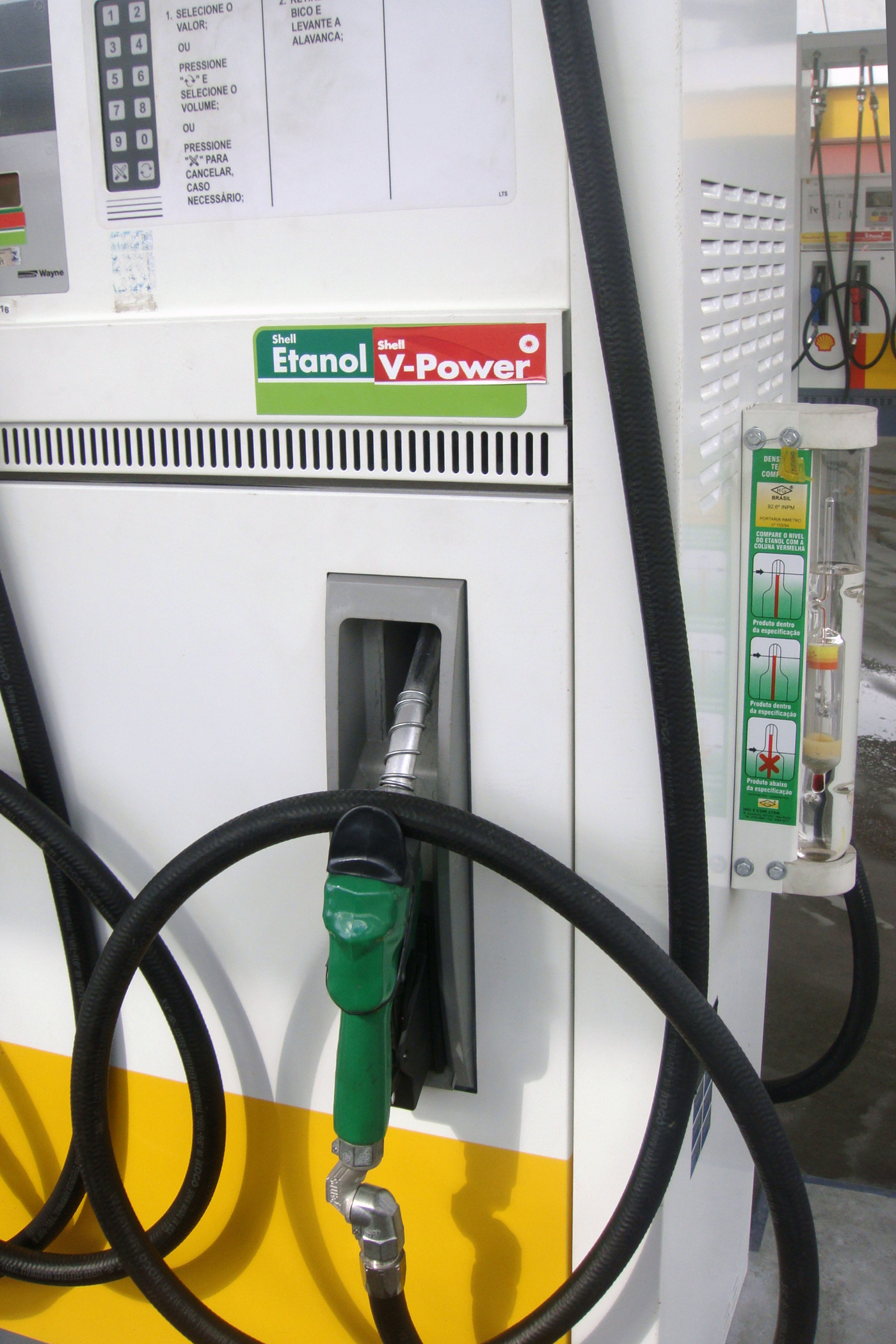 Ethanol fuel (E100) pump for sale at a regular gasoline station in Sao Paulo, Brazil.